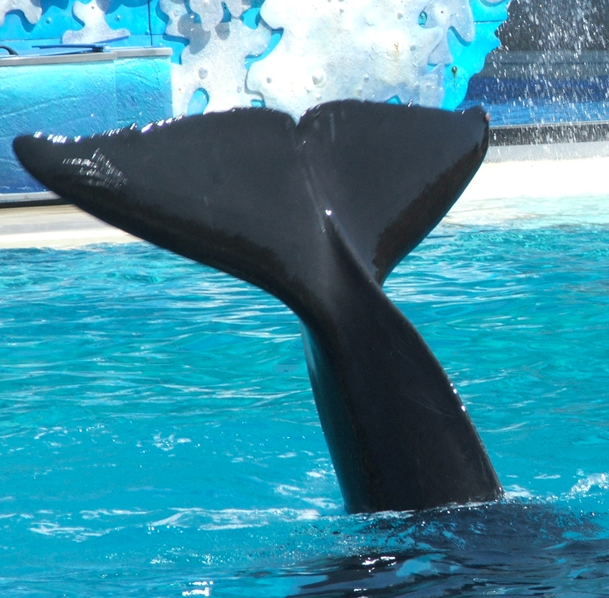 Orca show at Sea World San Diego